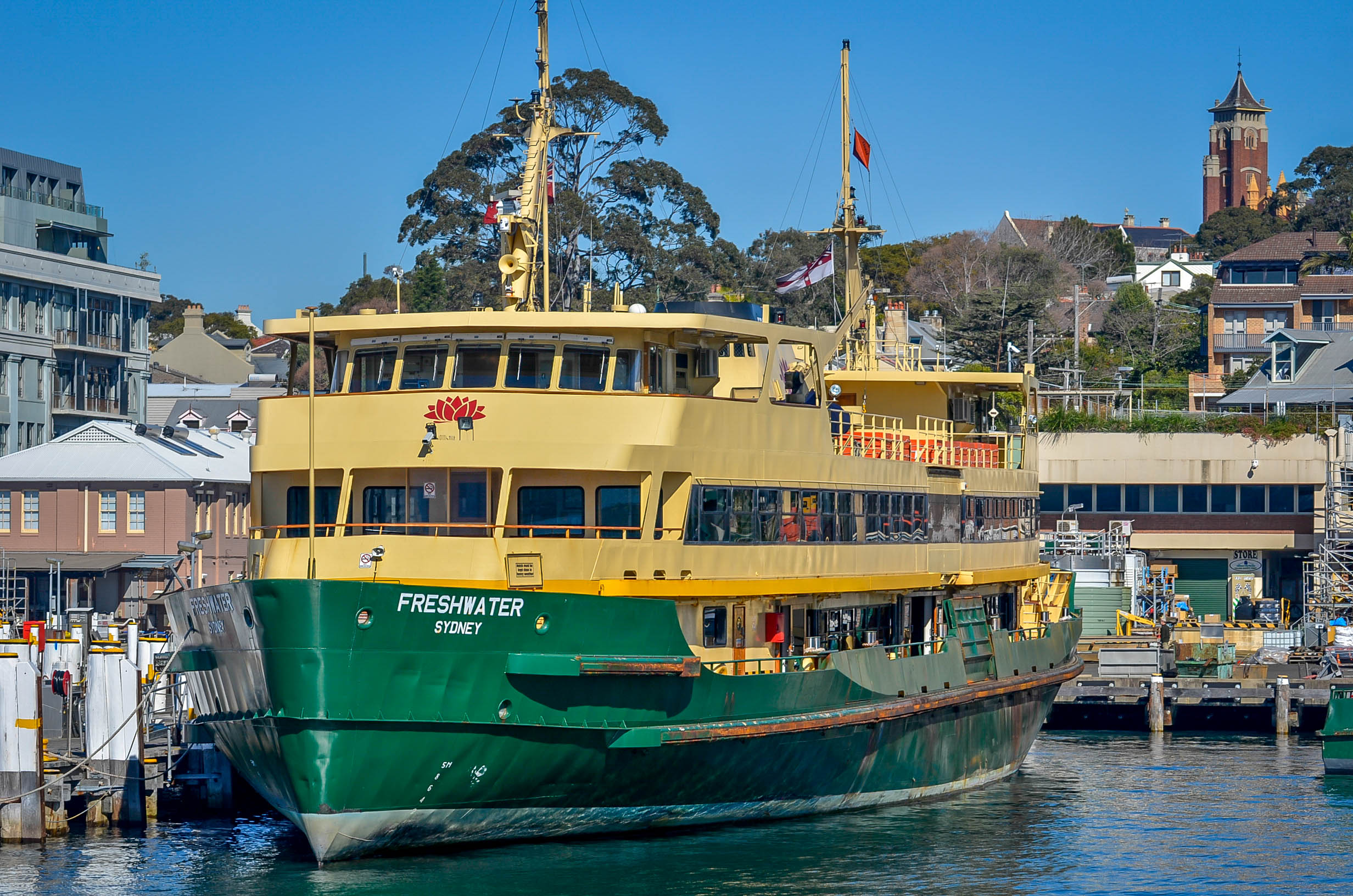 MV Freshwater at Balmain Maintenance Depot following a Collision with the Manly Wharf on 22 June 2013